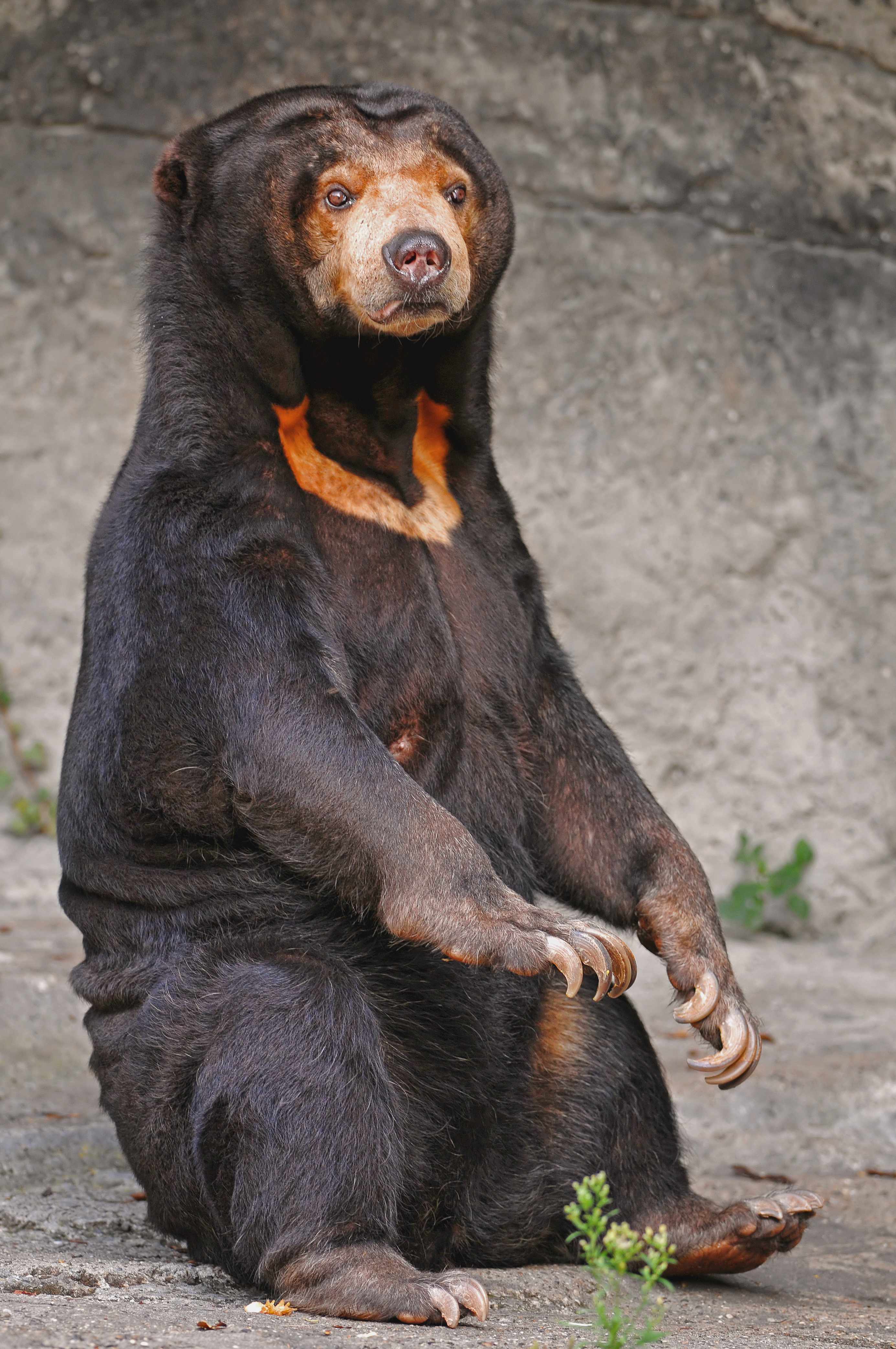 A female sun bear (or Malayan bear) sitting in her enclosure of the zoo of Basel.